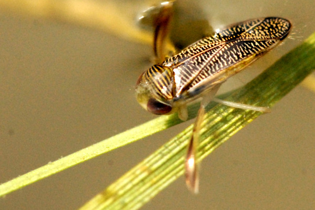 Sigara scotti from Commanster, Belgian High Ardennes .